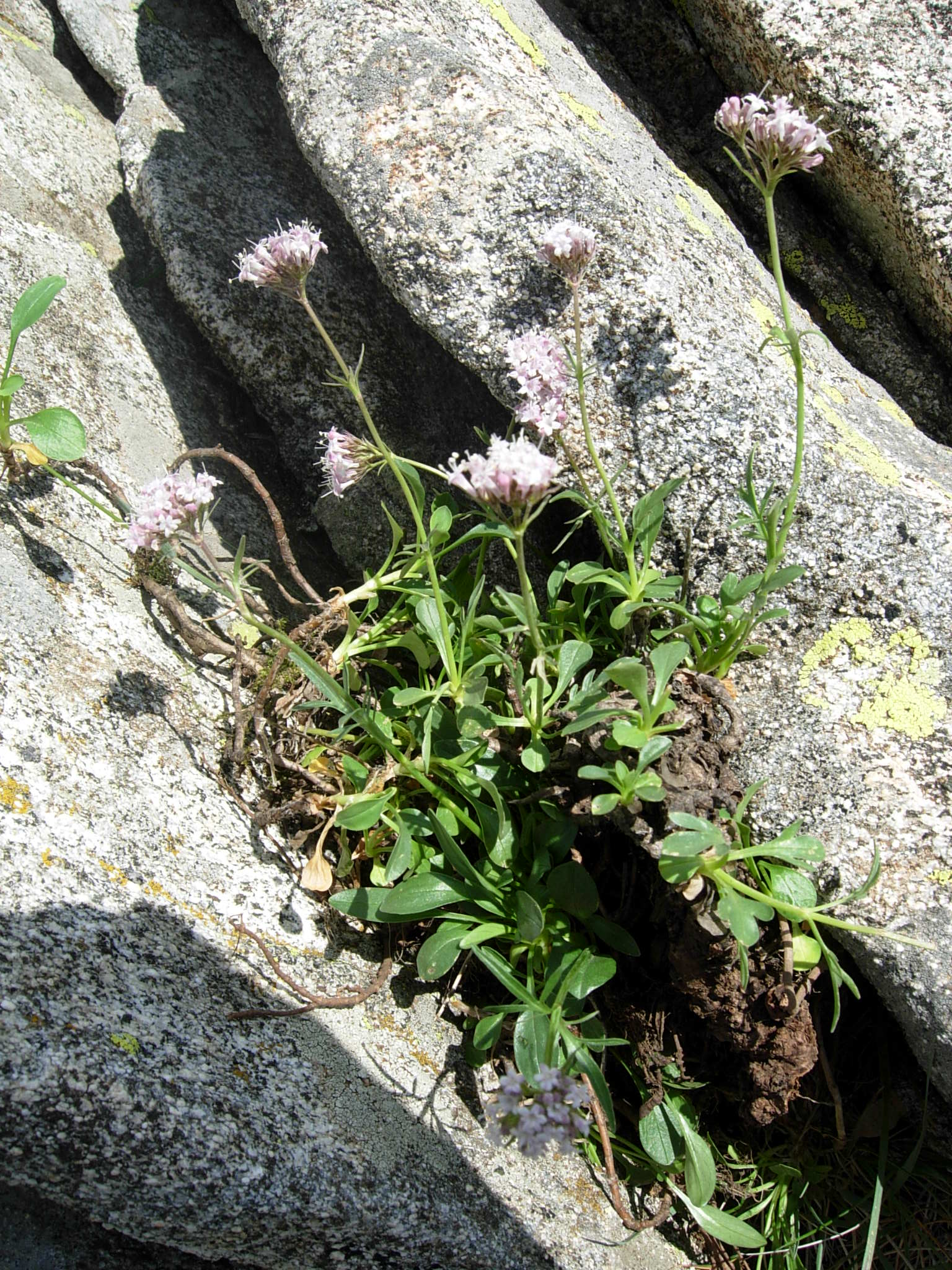 Valeriana apula